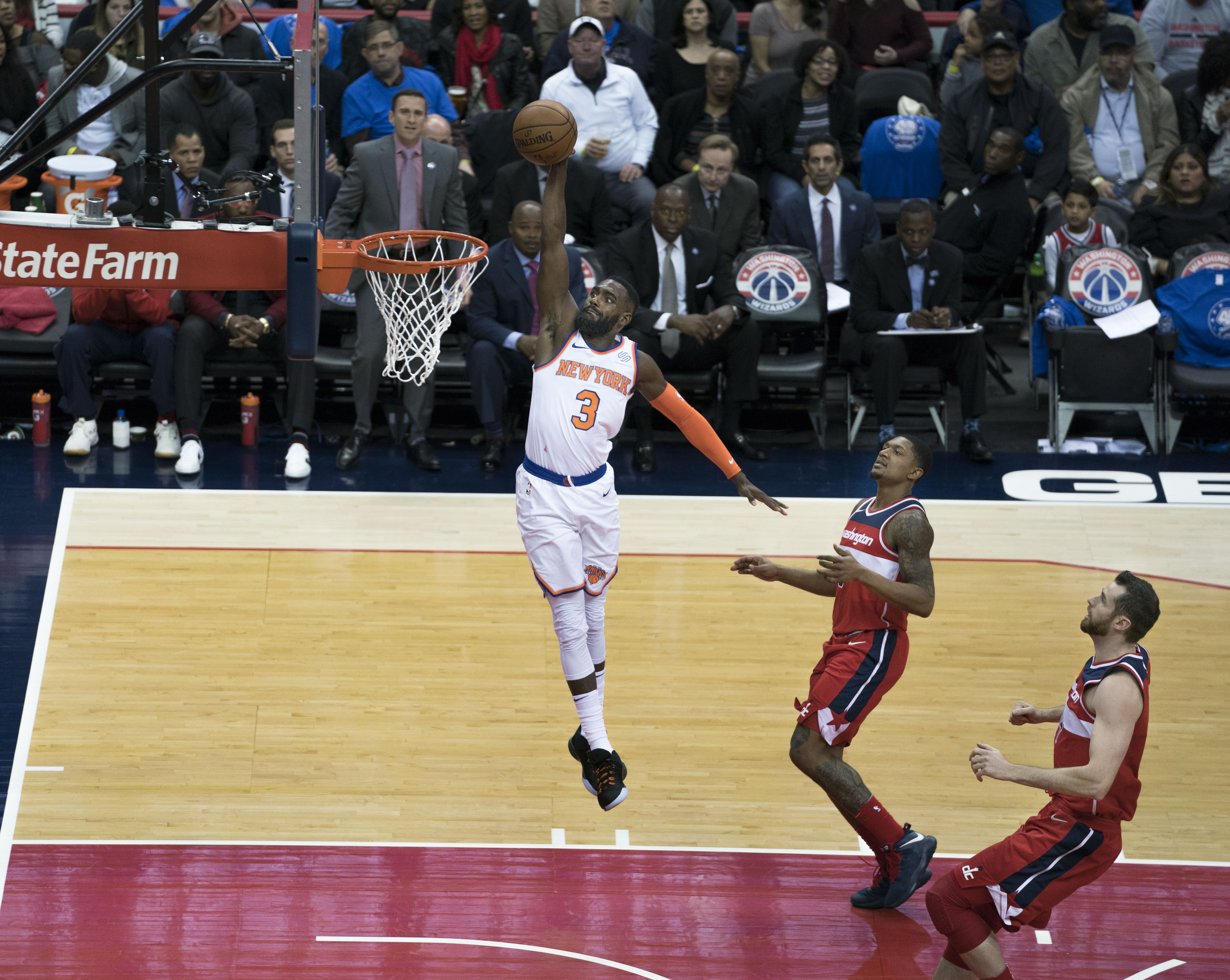 Knicks at Wizards 3/25/18